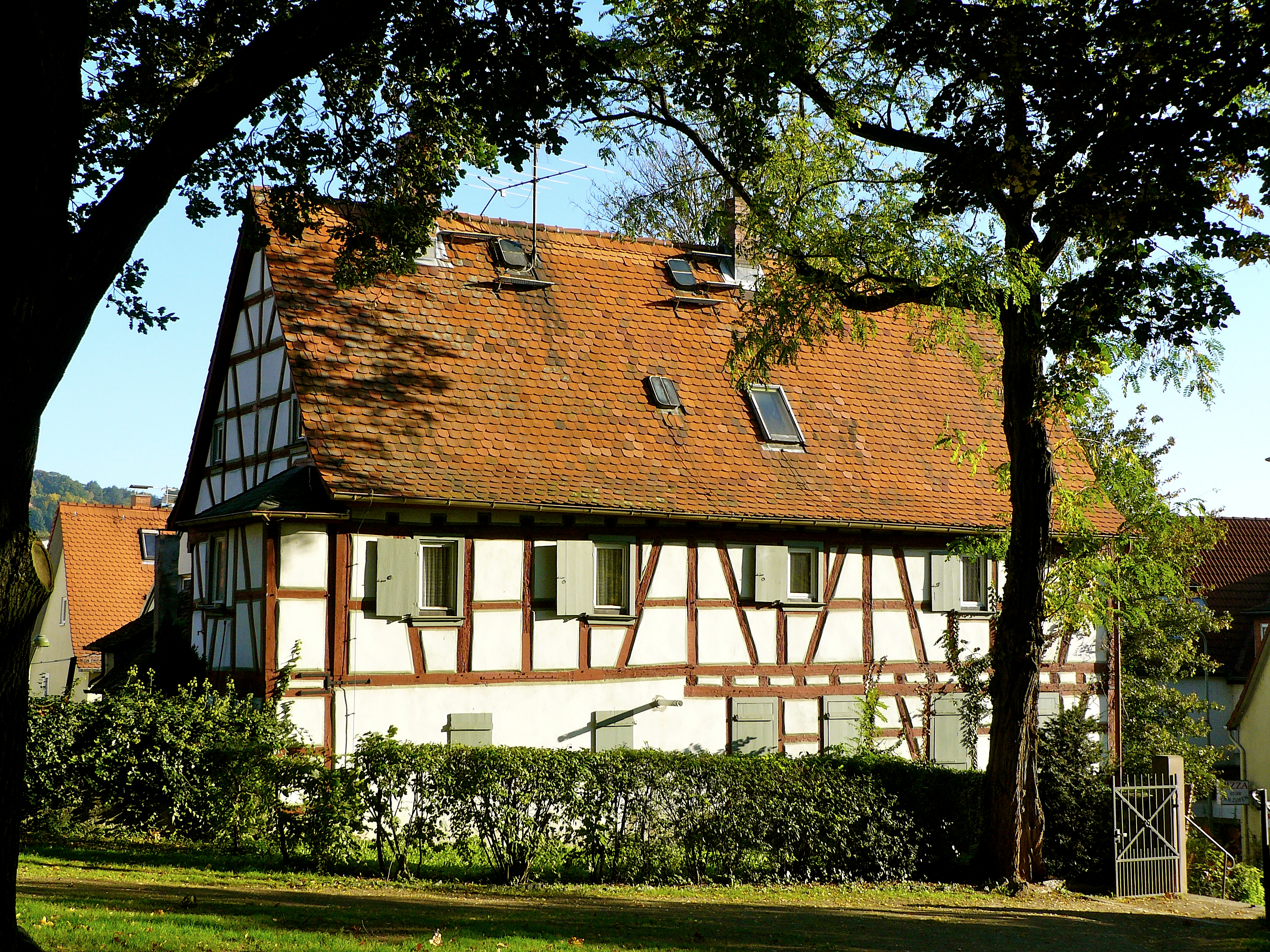 Old Lutheran School of Seckbach (1709), today a private home in the borrough of Frankfurt, Hesse, Germany